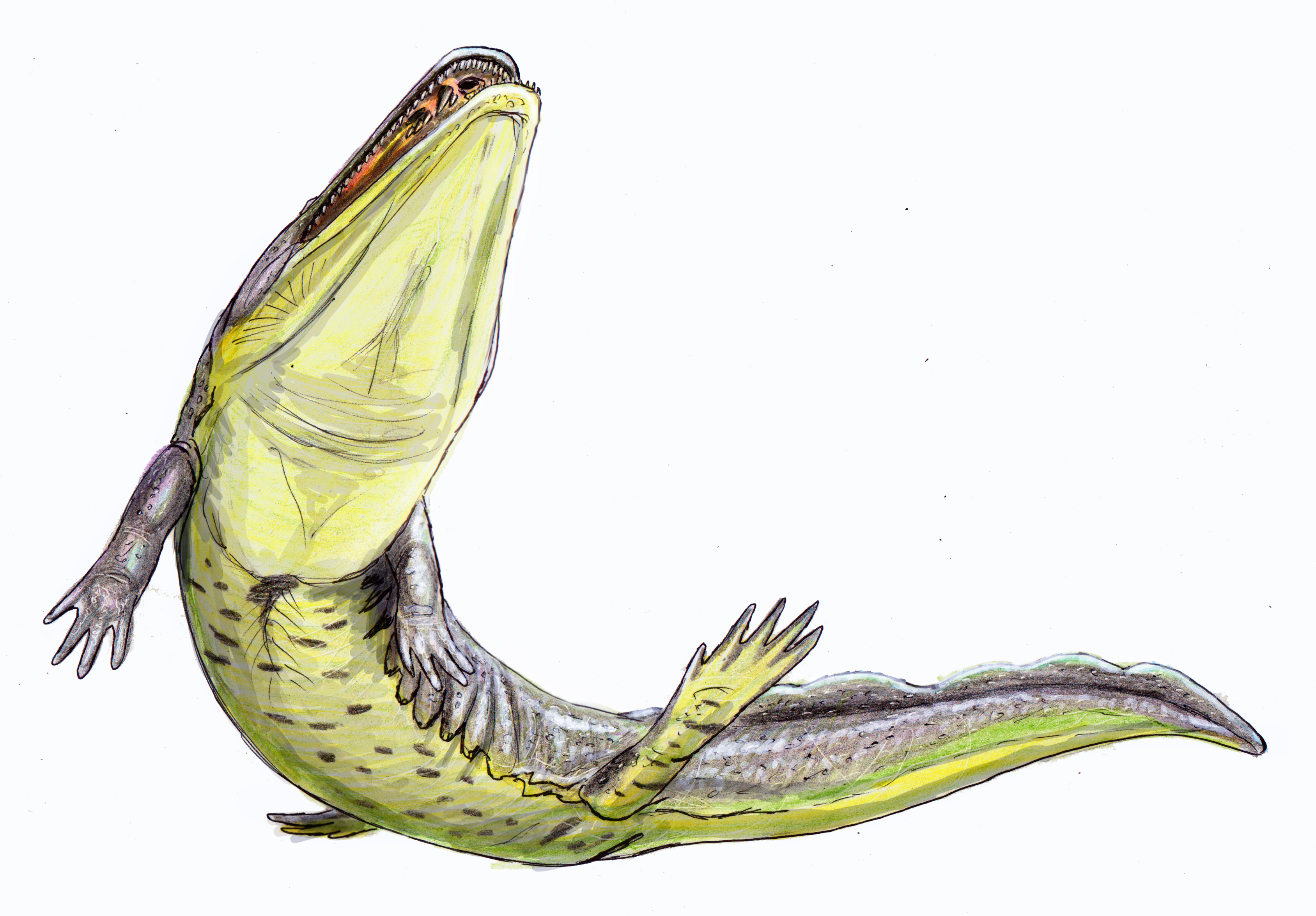 Kryostega collinssoni, from upper Fremouw Formation (Early-Middle Triassic) of Antarctica